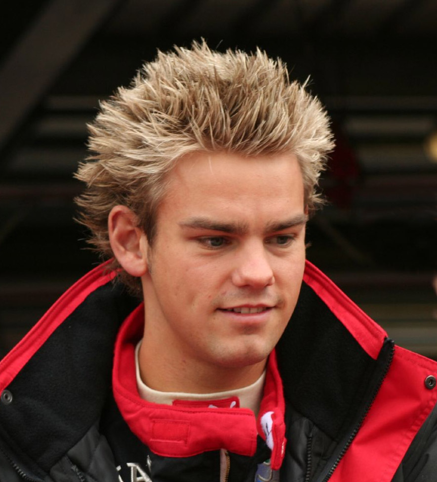 BTCC Driver Tom Chilton